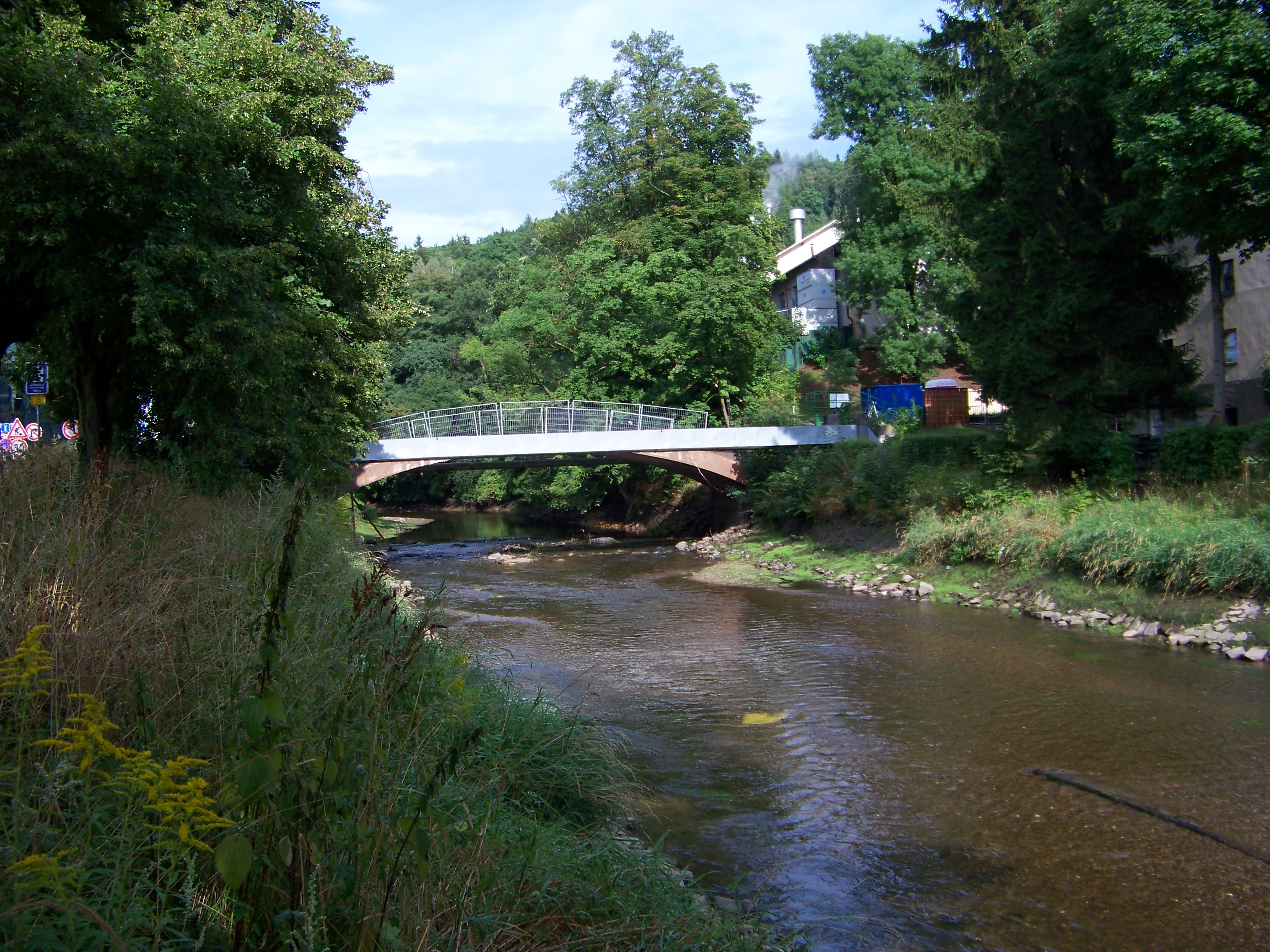 Náchod, Náchod District, Hradec Králové Region, Czech Republic. Metuje river.